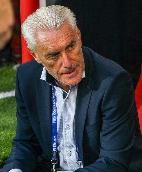 Cameroon vs Chile (0-2). FIFA Confederations Cup 2017